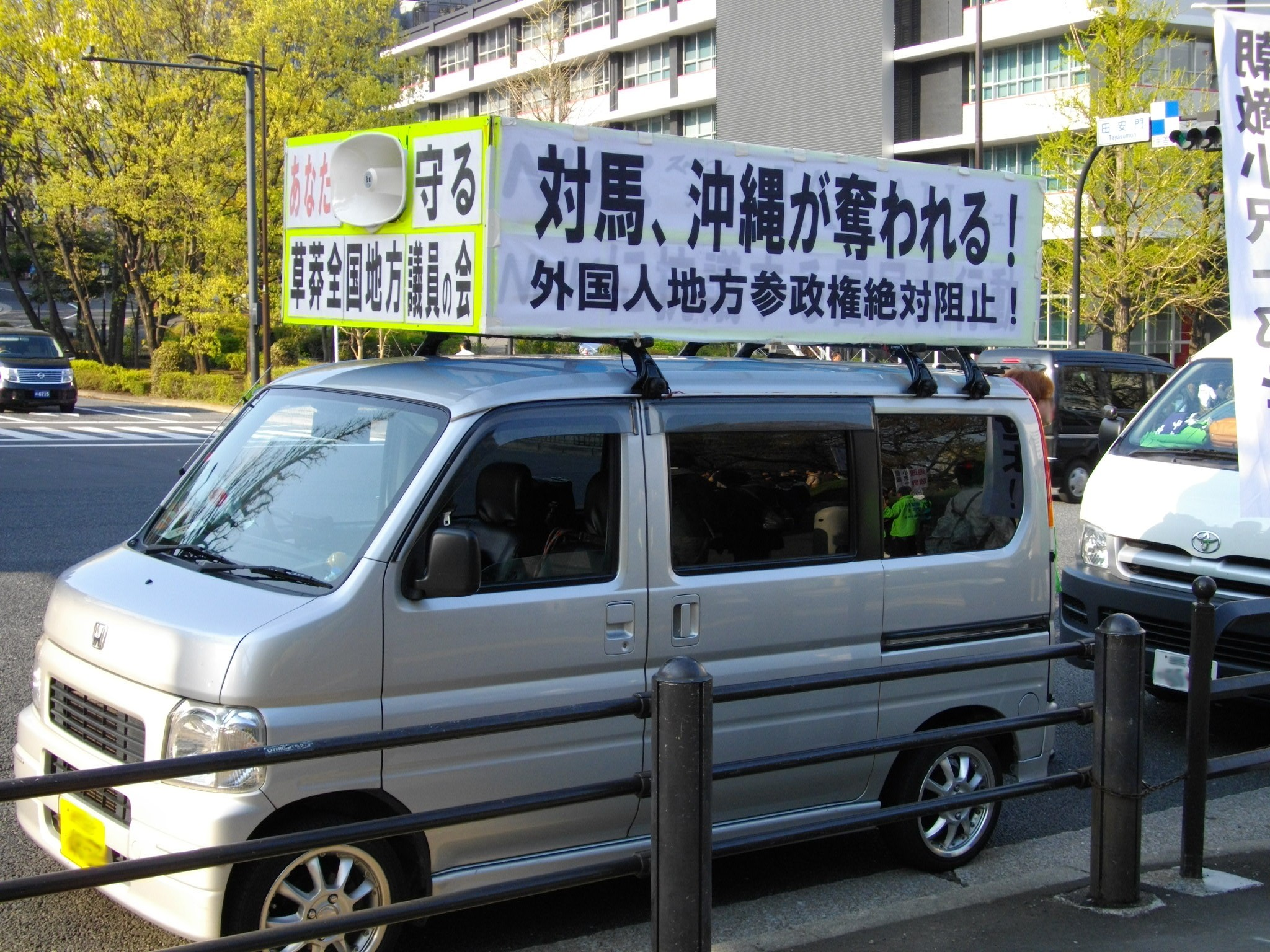 Soumou Zenkoku Chiho-giin no Kai political sound truck